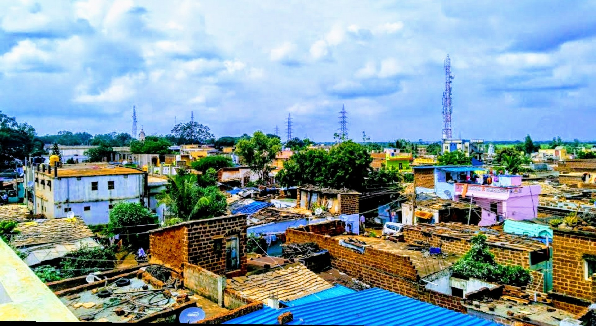 View of Mannaekhelli village. Mannaekhelli is a largest villge in Bidar South constituency. A beautiful and best Market area in the region.